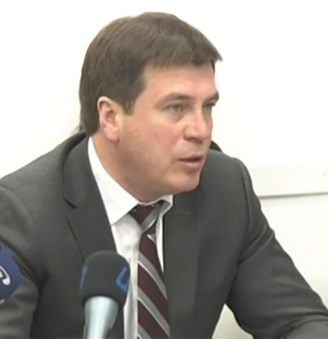 Hennadiy Zubko, Ukrainian politician, member of the Ukrainian Verkhovna Rada